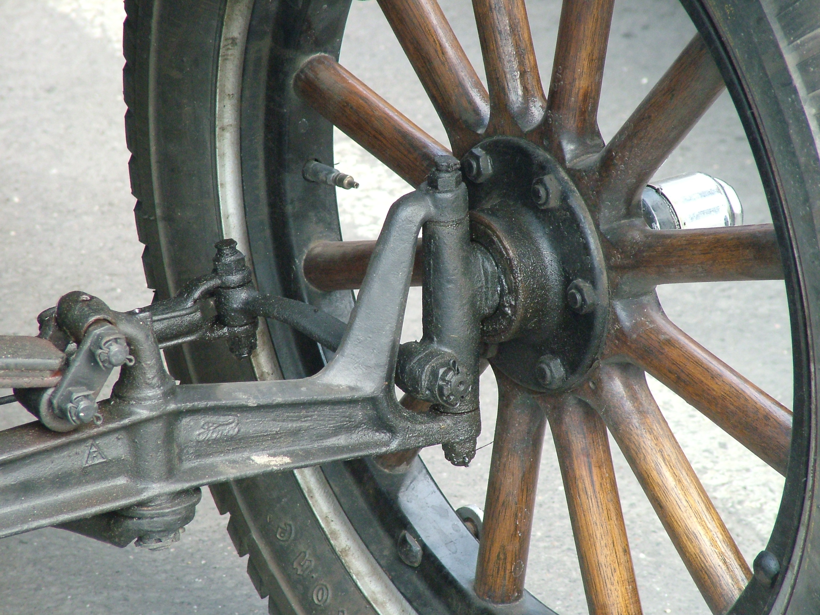 2007 Season opening of hungarian Ford enthusiasts